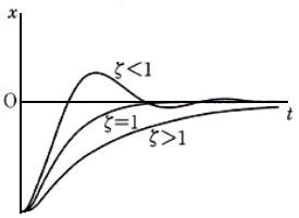 Vibration curves of three types of damping